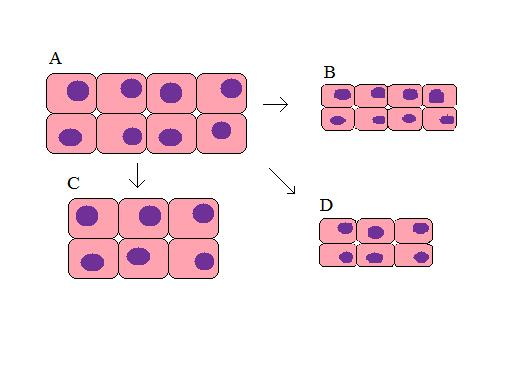 Atrophi, in hematoxylin eosinophilic stain, smaller cells, less cells and combination